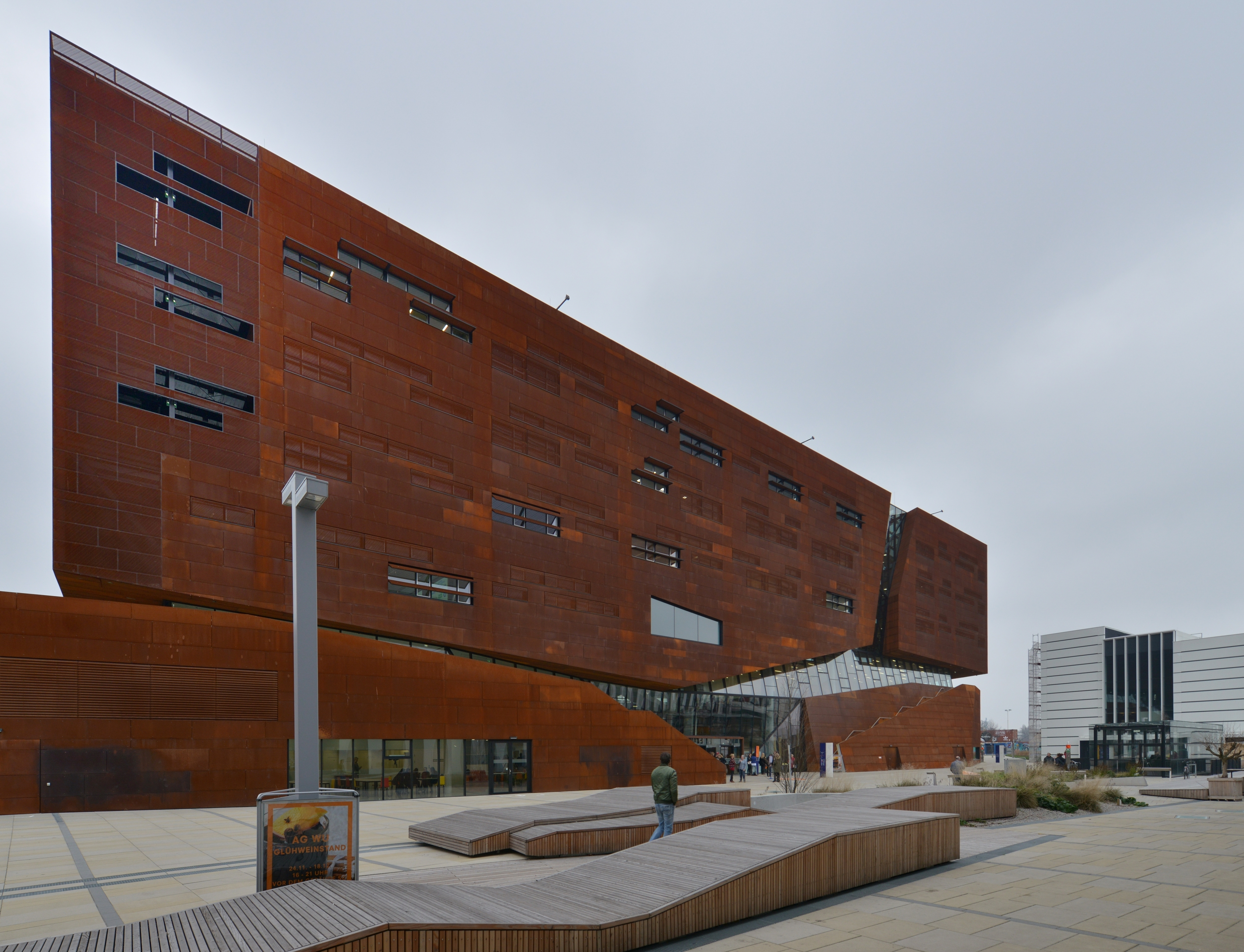 Campus of the Vienna University of Economics and Business, Department 1 und Teaching Center (D1 & TC) (architect: Architektenkollektiv BUSarchitektur aus Wien unter der Leitung von Laura Spinadel). Welthandelsplatz 1, 2nd district of Vienna.